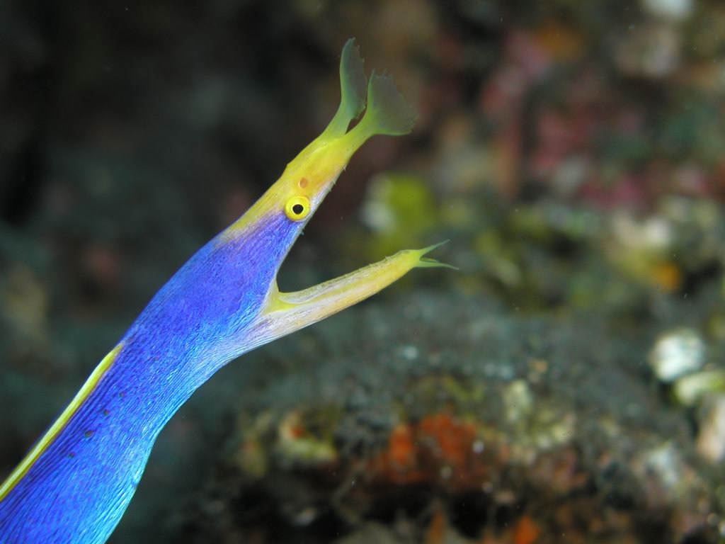 Close-up.